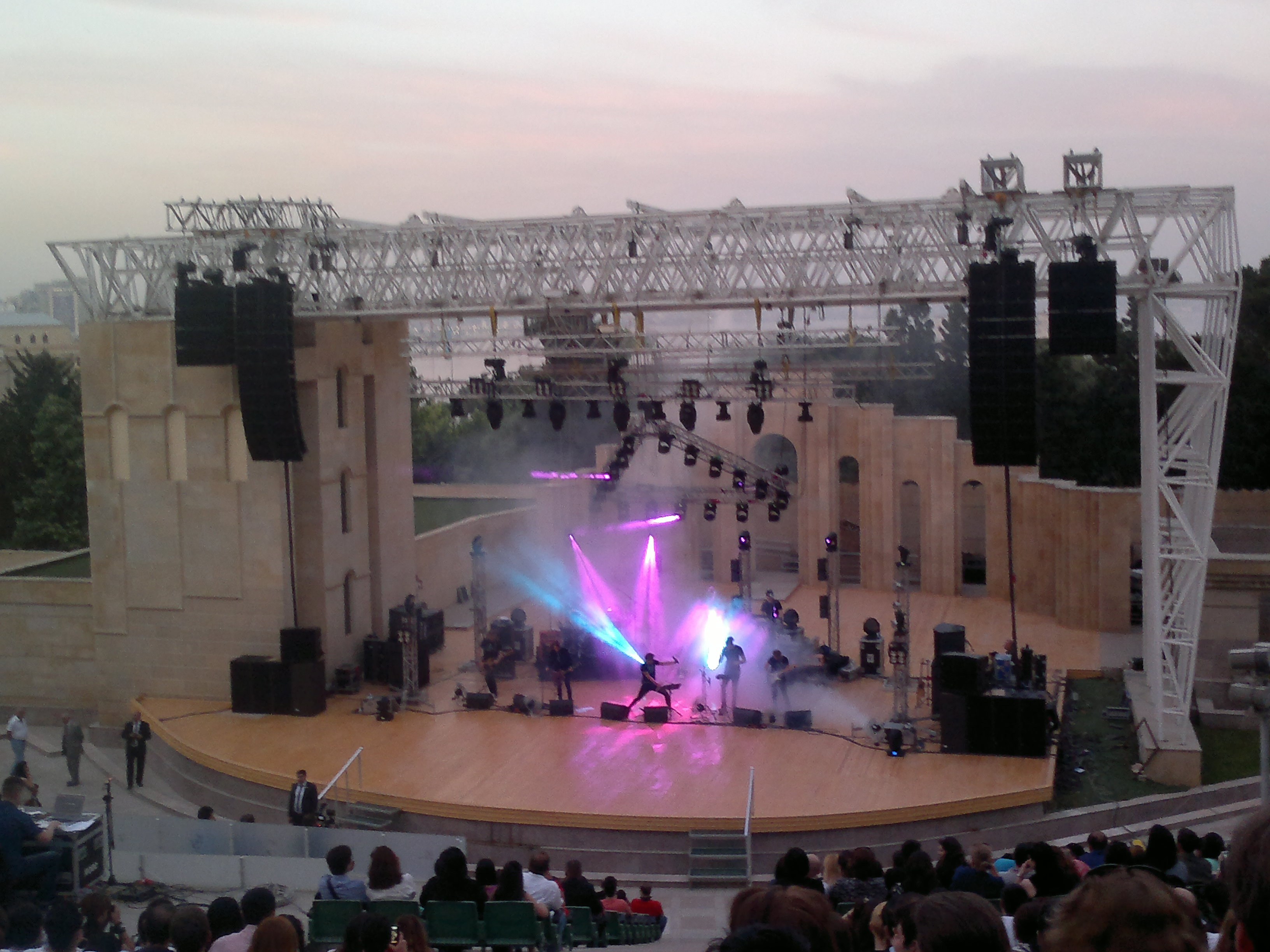 Concert of Bi-2 in Baku (Green Theater)